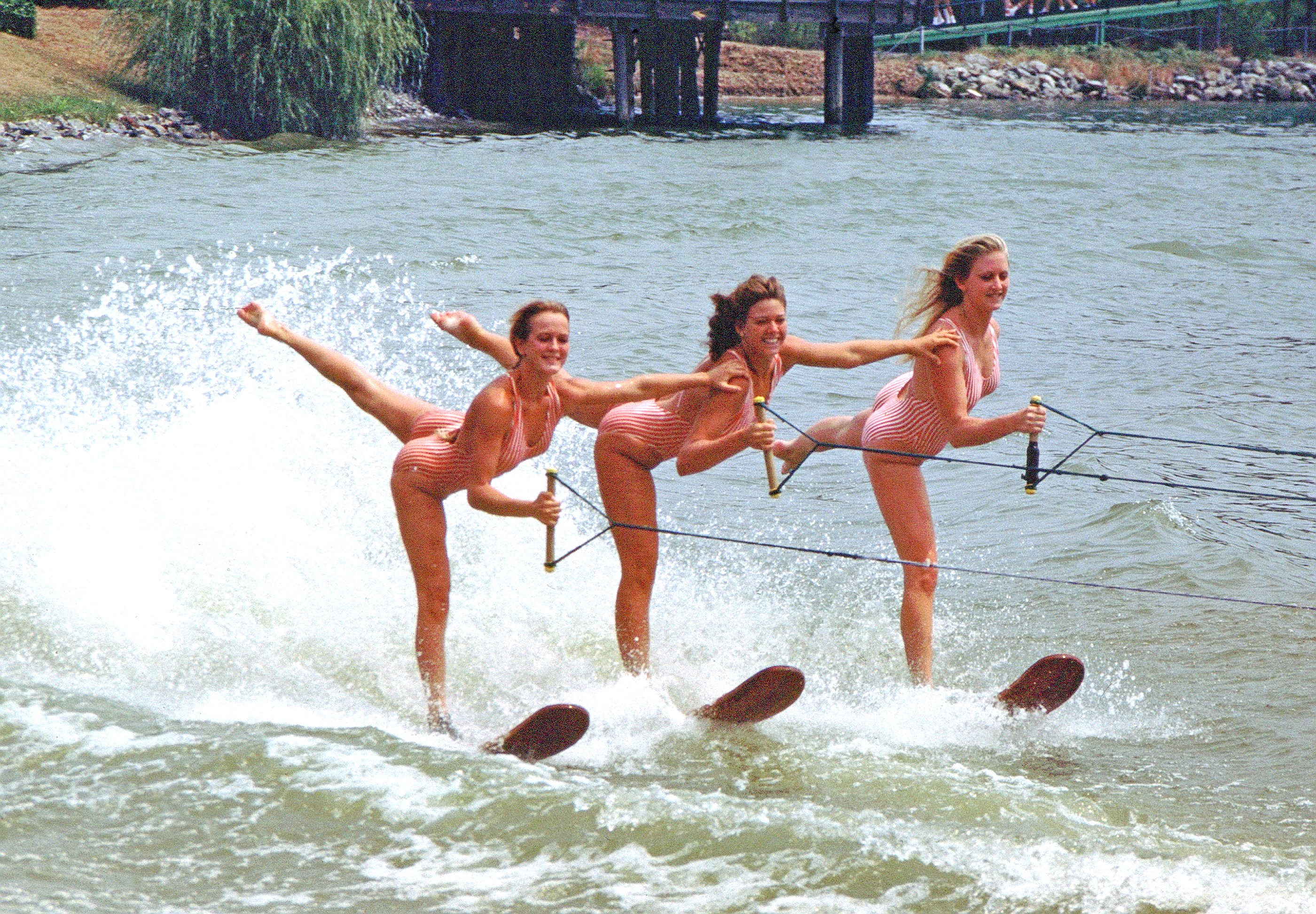 Water Skiing Image by Ted Van Pelt